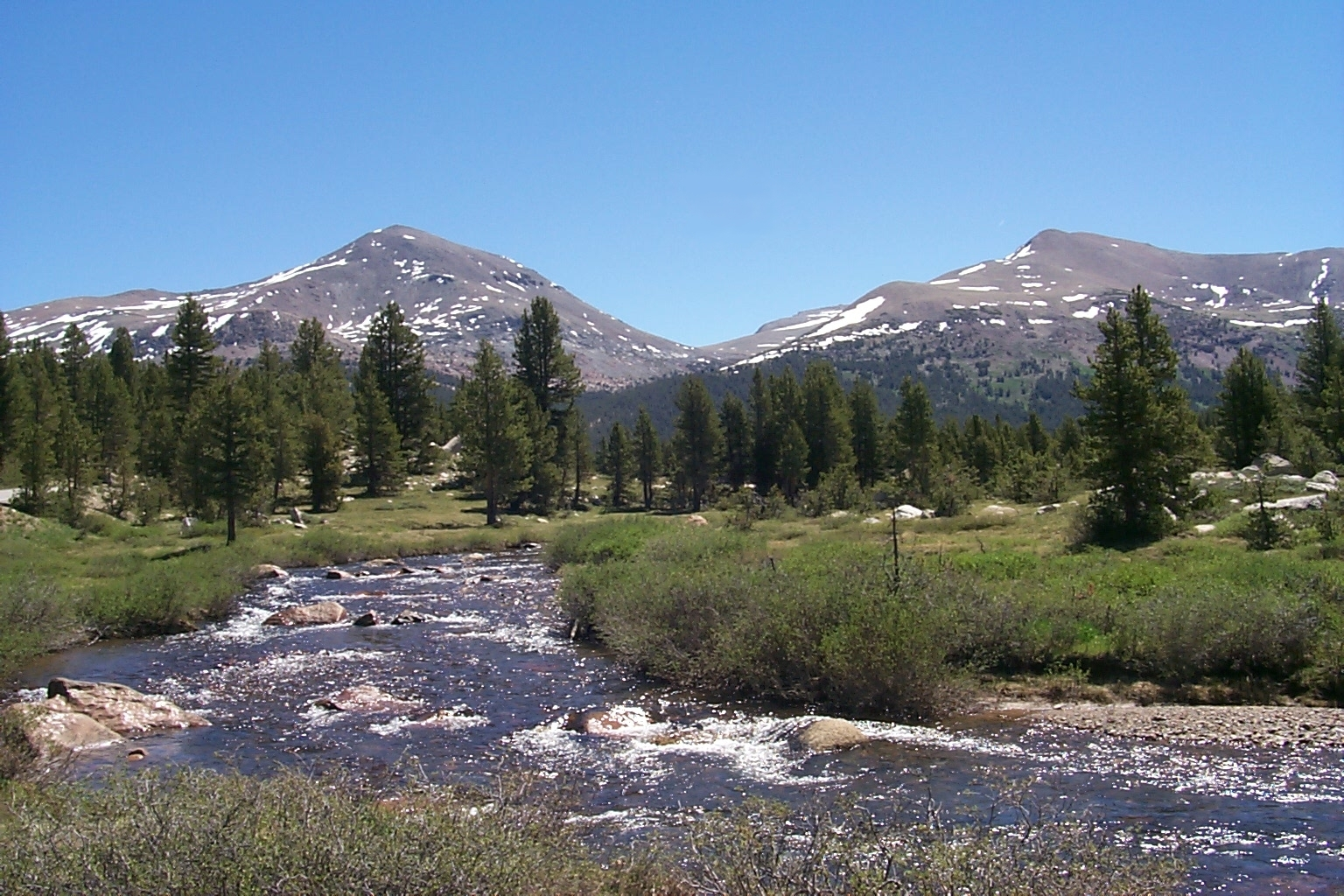 Dana Meadows in Yosemite National Park, showing the headwaters of the Tuolumne River